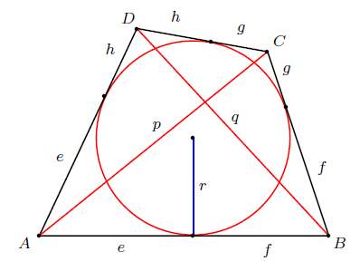 Tangent quadrilateral elements